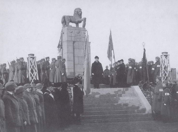 Lion of Independence by Gunnar Finne (1886-1952) in Vyborg.